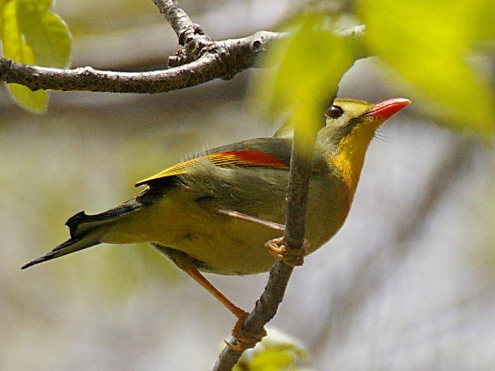 A Red-billed Leiothrix in the wild in Tsukuba, Japan.